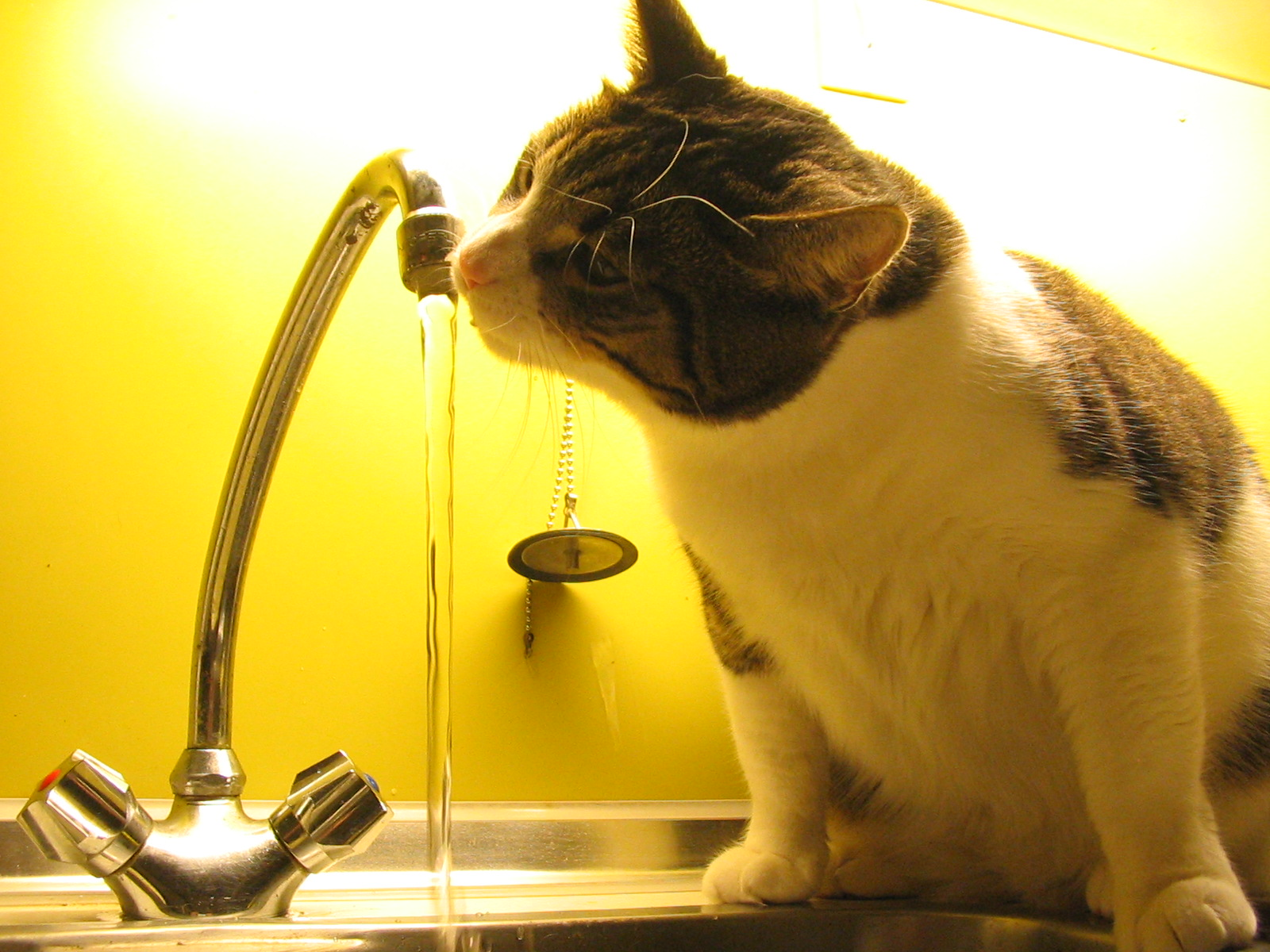 Cat Konken drinking tap water